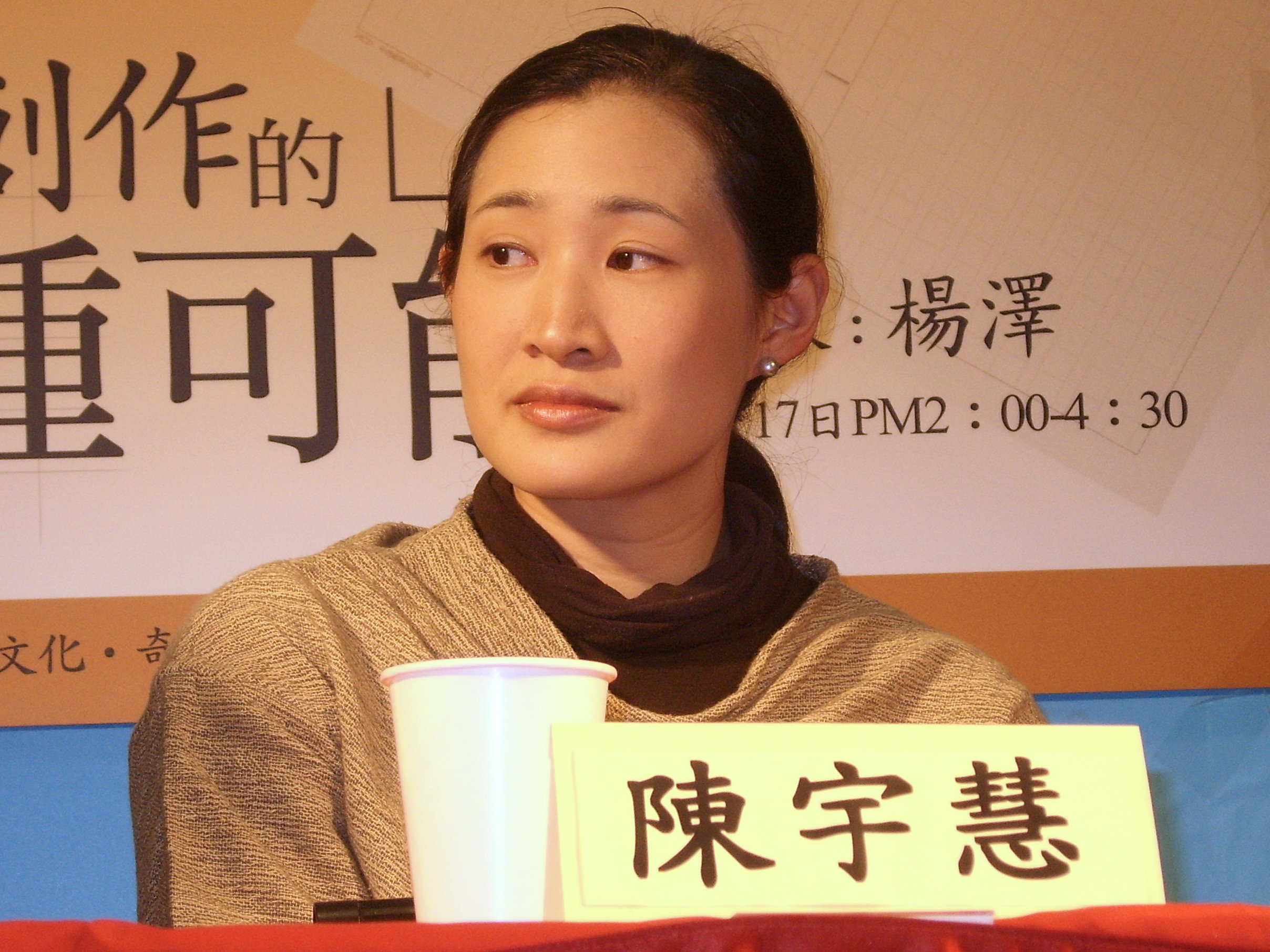 2008 Taipei International Book Exhibition - Hall 1 Activity Center 2: Yu-huei "Jenfeng" Chen, a famous novelist in Taiwan.